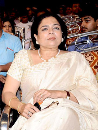 Sulochana Latkar and Reema Lagoo at Maharashtra Day celebration